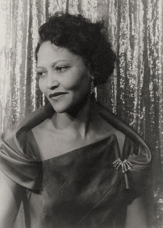 portrait of american actress Maidie Norman Portrait of Maidie Norman